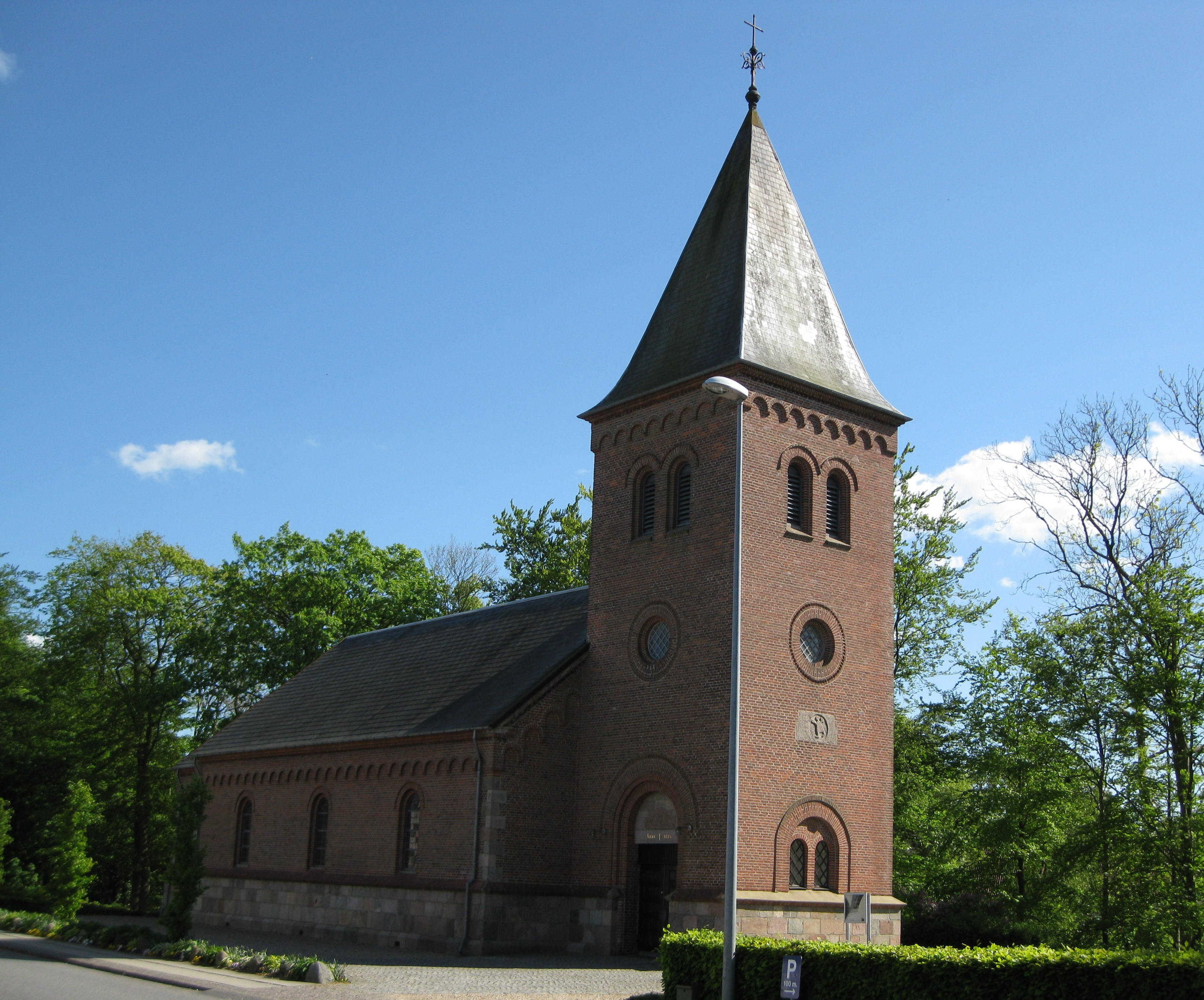 The church "Holsted Kirke" in the small town "Holsted". The town is located in Vejen Kommune, South-Central Jutland, Denmark.